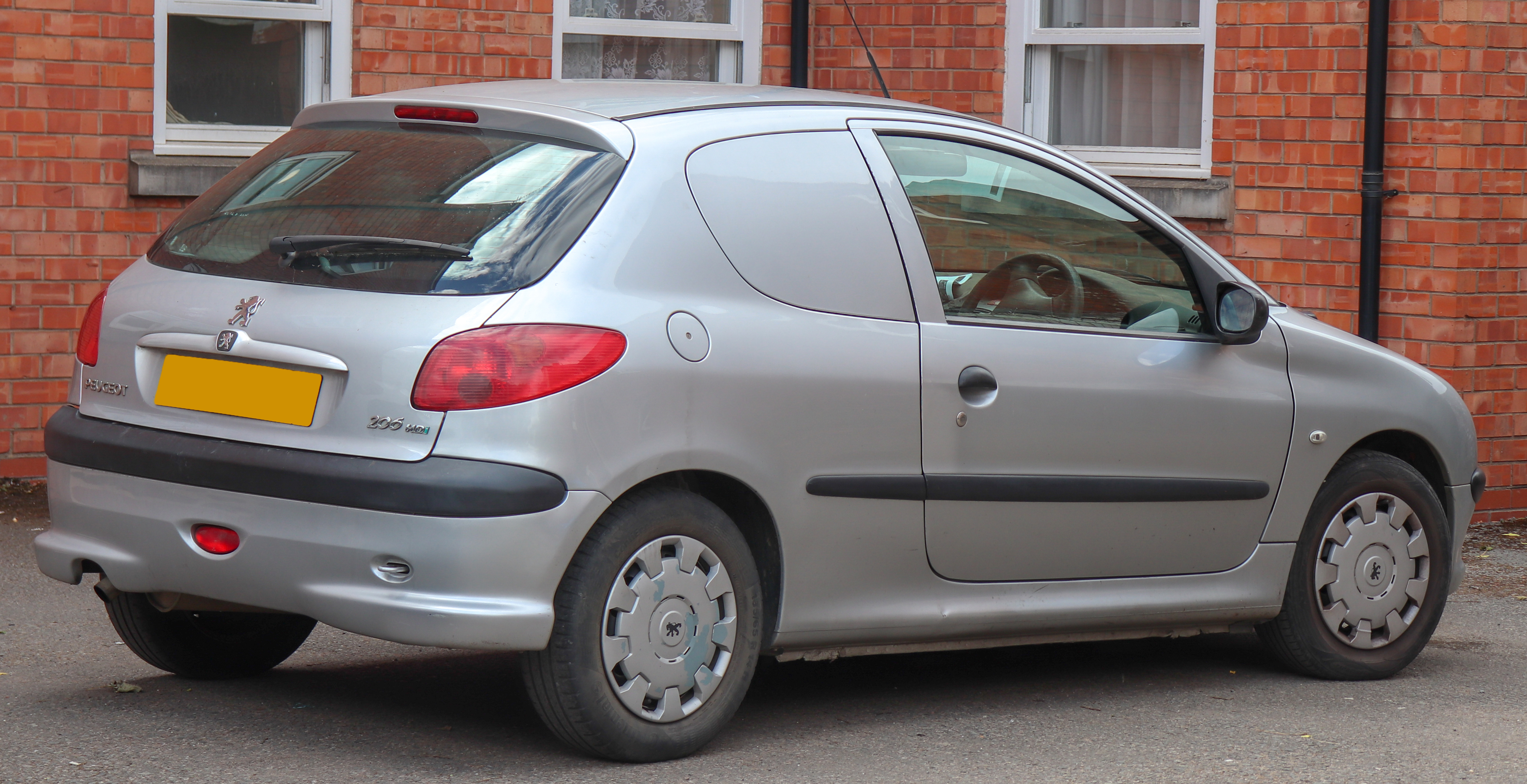 2006 Peugeot 206 TD Van 1.4 Taken in Leamington Spa